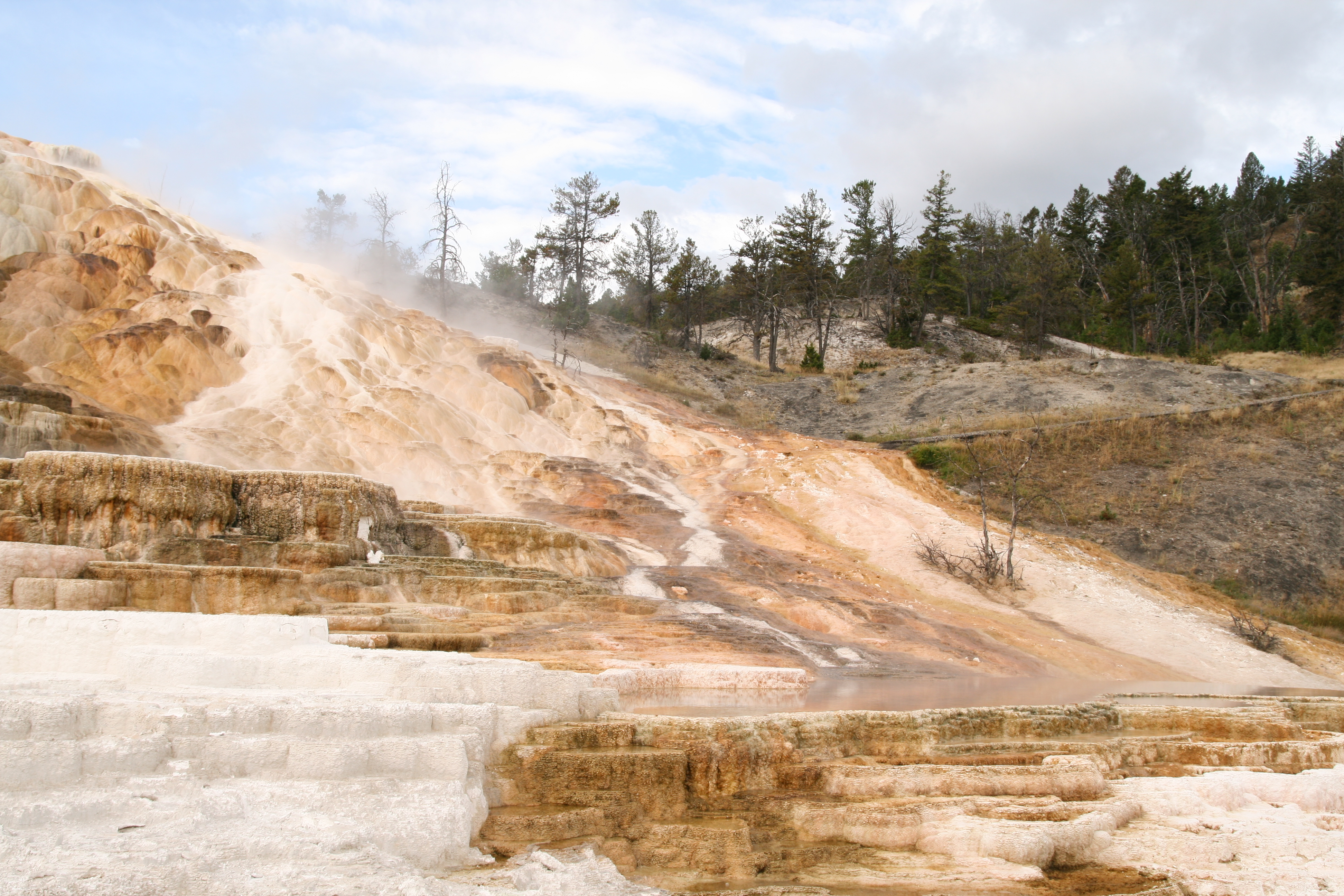 Sulphur laden hot steam constantly leaks out of the ground on Minerva Terrace, creating the yellowish color on the rocky ground. Such yellow stones are what gave name to the national park: Yellowstone.